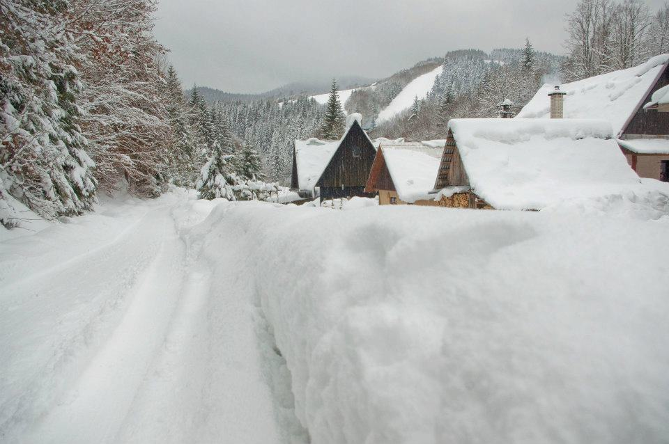 Papradno Podjavorník - Chuchmalovci